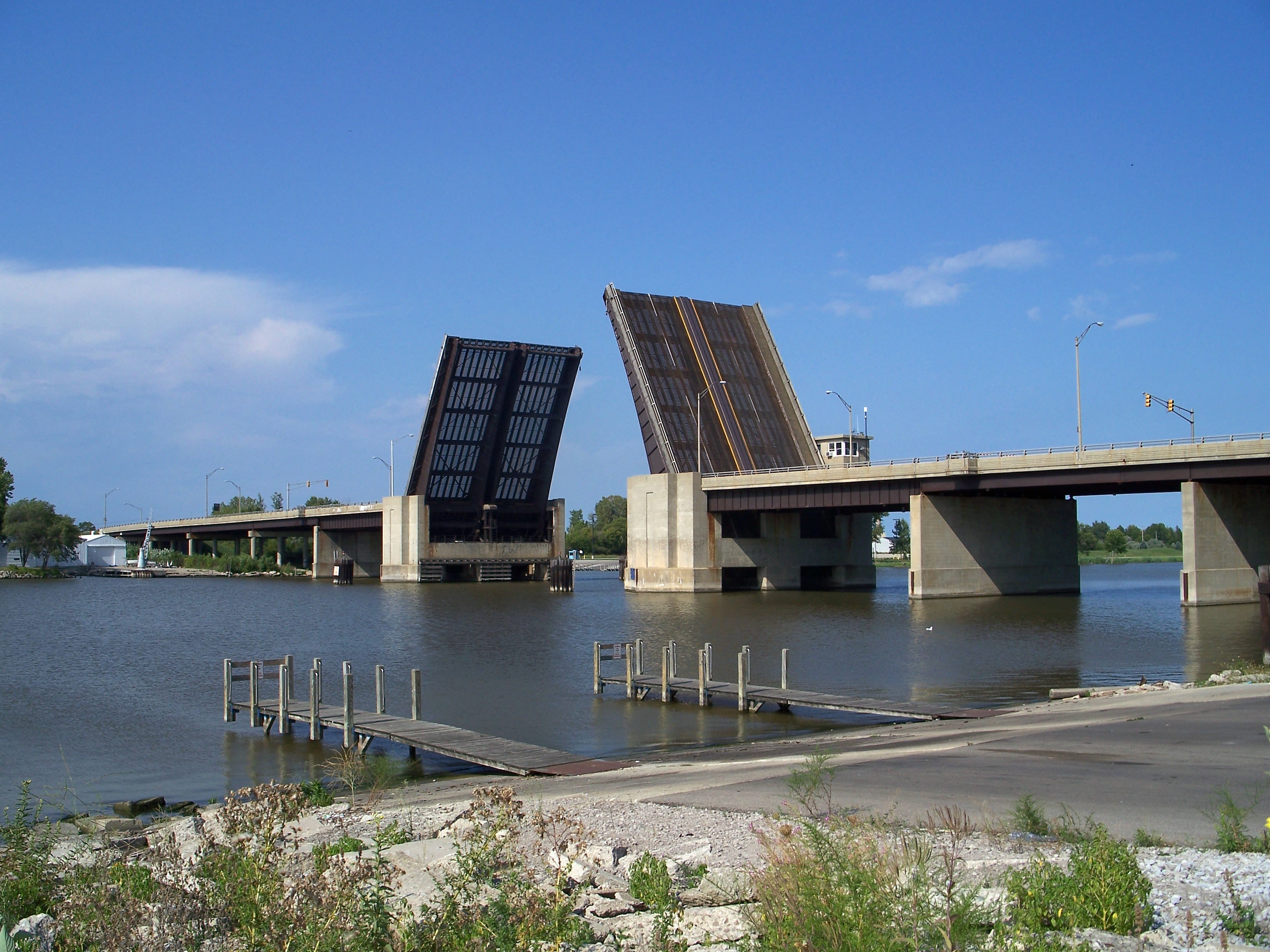 Independence Bridge, in Bay City, Michigan, is a 1976-built bascule bridge carrying Truman Parkway over the Saginaw River. In this photo, Truman Parkway was closed for construction, so the bridge was left in the raised/open position to allow river traffic to flow freely.